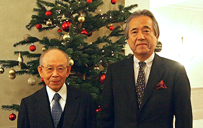 Isamu Akasaki, Director of the Research Center for Nitride Semiconductor Core Technologies, Meijo University, met Seiji Morimoto, Ambassador to Sweden, in Sweden.